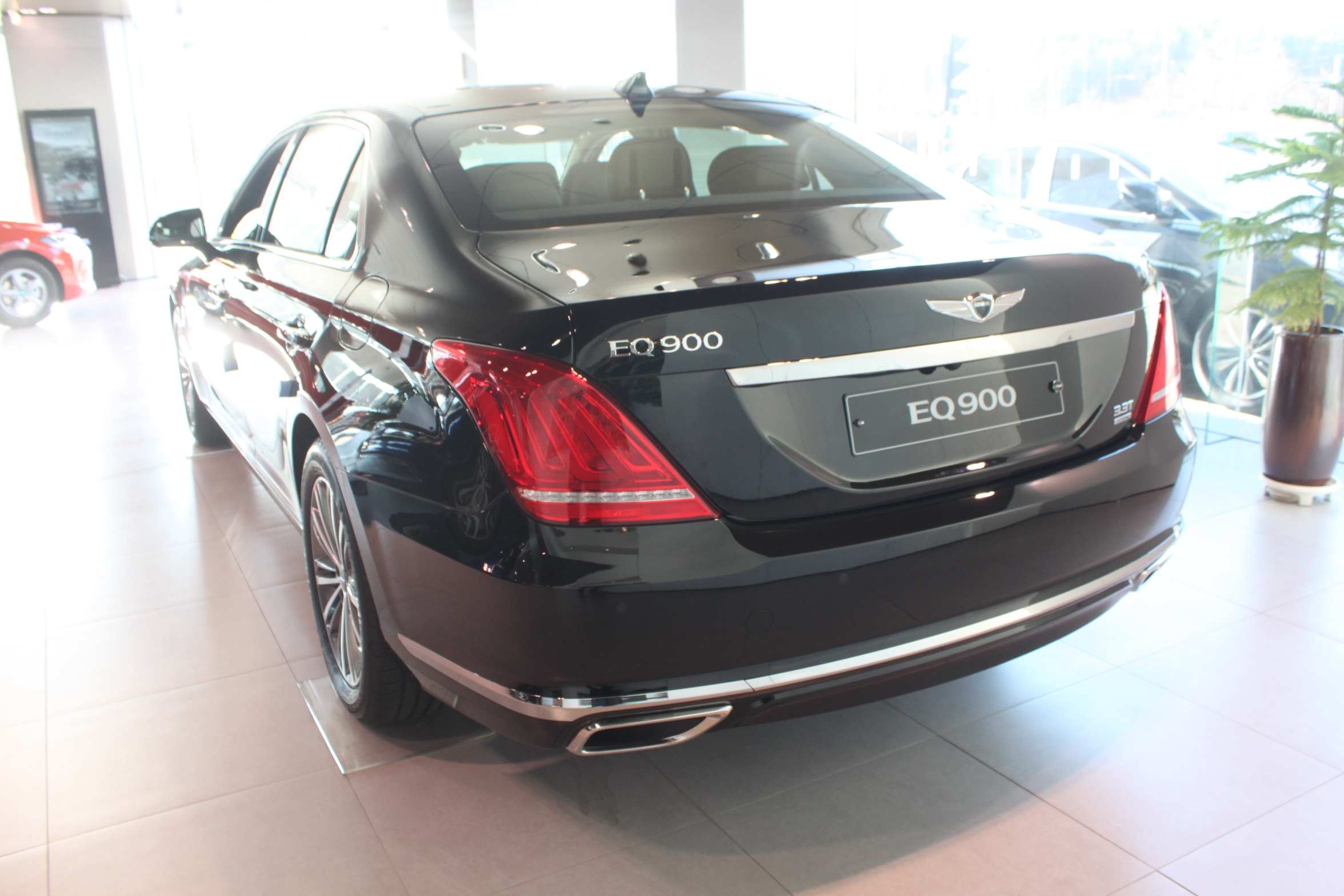 2016 Genesis EQ900 Rear-side